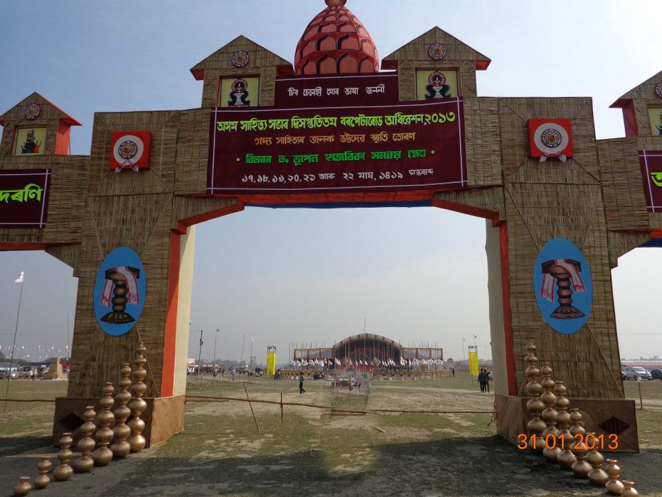 Gateway of Assam Sahitya Sabha Adhibeshan help on Feb' 2013 at Barpetaroad